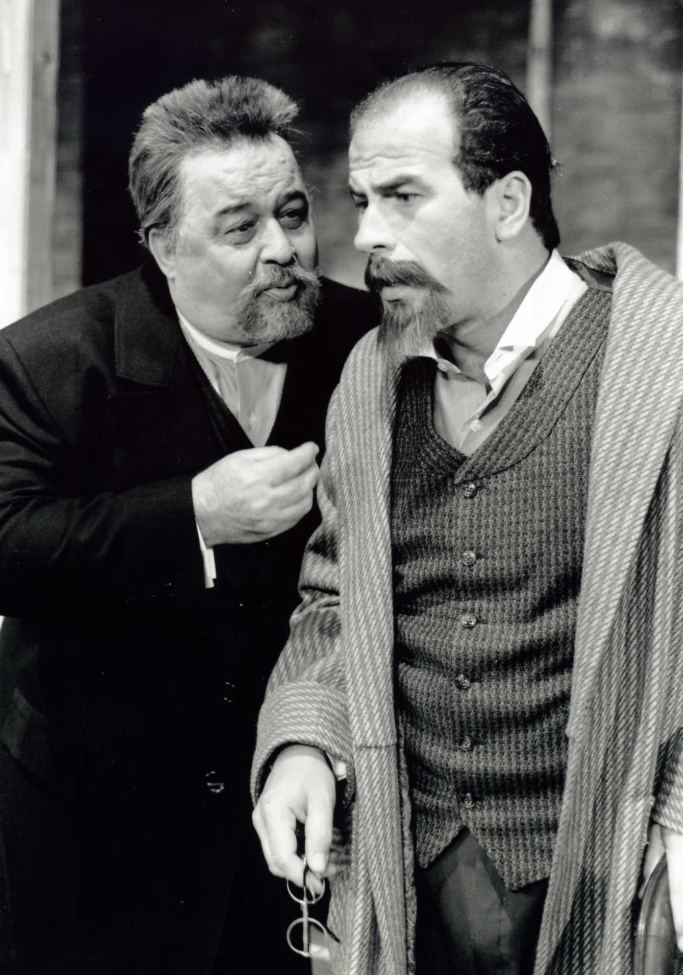 Dimitris Papamichael (Ivan) and Kostas Triantafyllopoulos (Yakov) in Maxim Gorky's "The Last Ones". (Athens, Porta Theatre, 1995-1996)